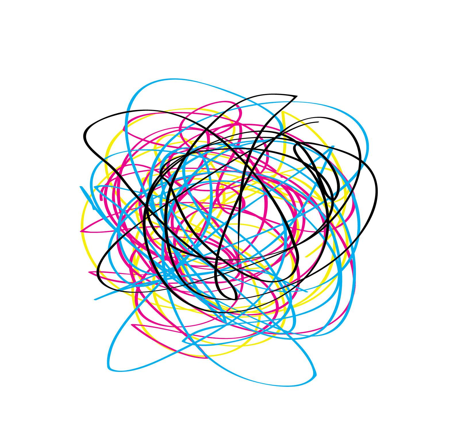 SIck Muse Art Projects' Logo represents the thinking process